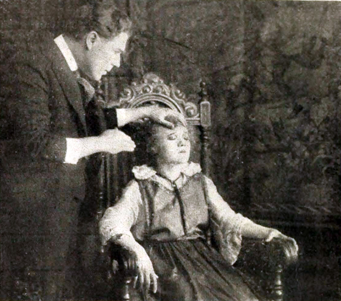 Psychical researcher Hereward Carrington in the American mystery film serial The Mysteries of Myra (1916). The film serial starred Jean Sothern as Myra. Illustration of a review in The Moving Picture World.